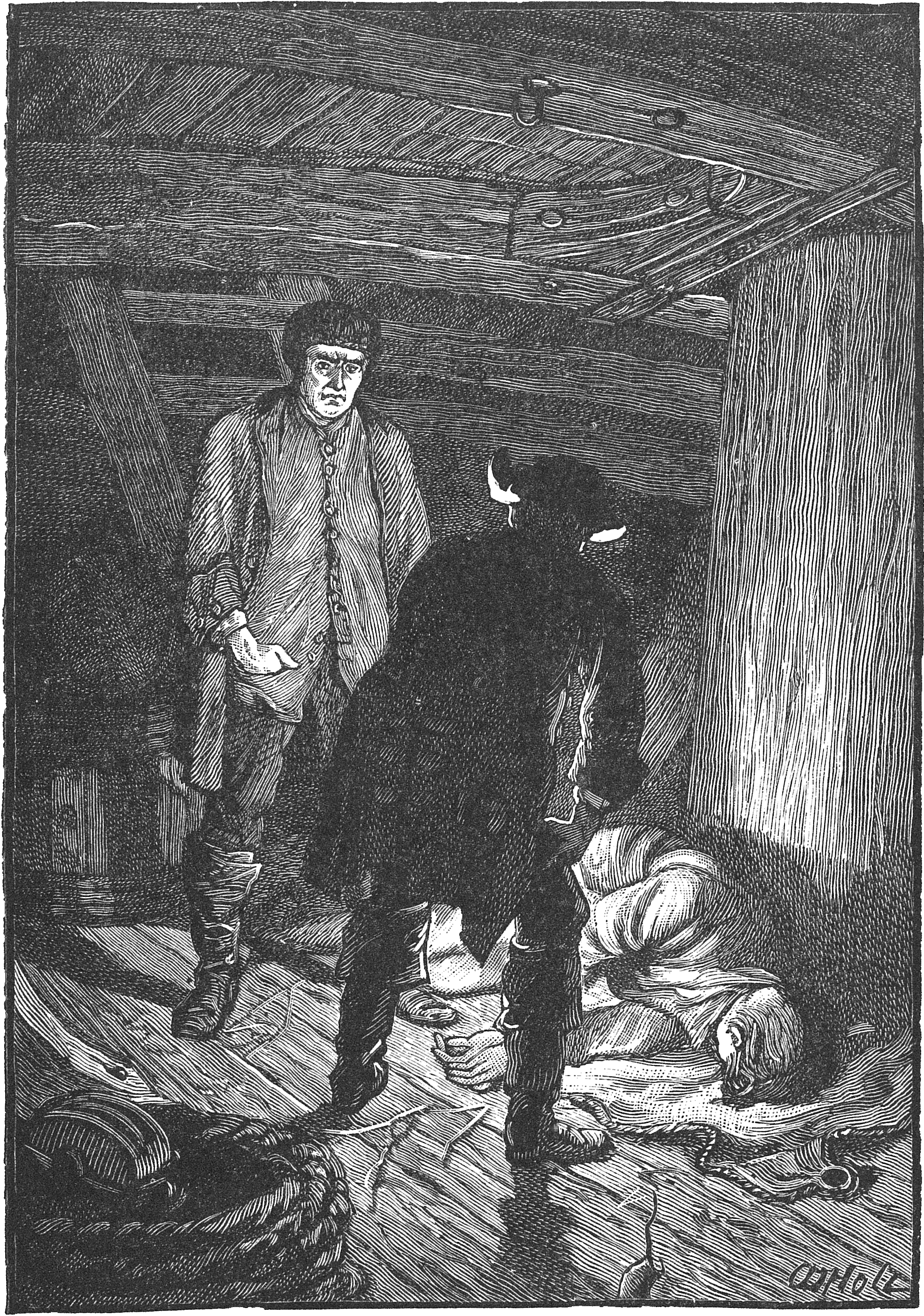 "Hoseason turned upon him with a flash" (chapter VII, « I Go to Sea in the Brig "Covenant" of Dysart »)